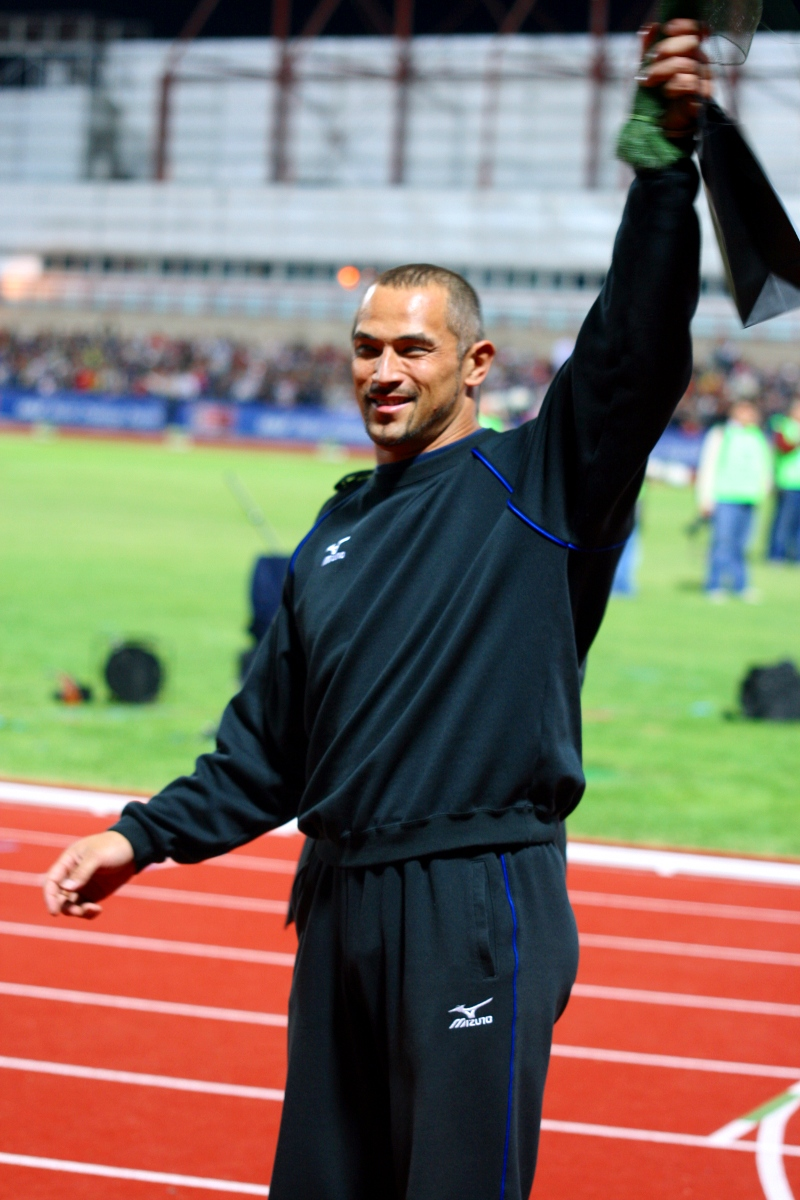 Koji Murofushi won first place (hammer throw - 79,71m) on 60th Hanžeković Memorial in Zagreb 2010